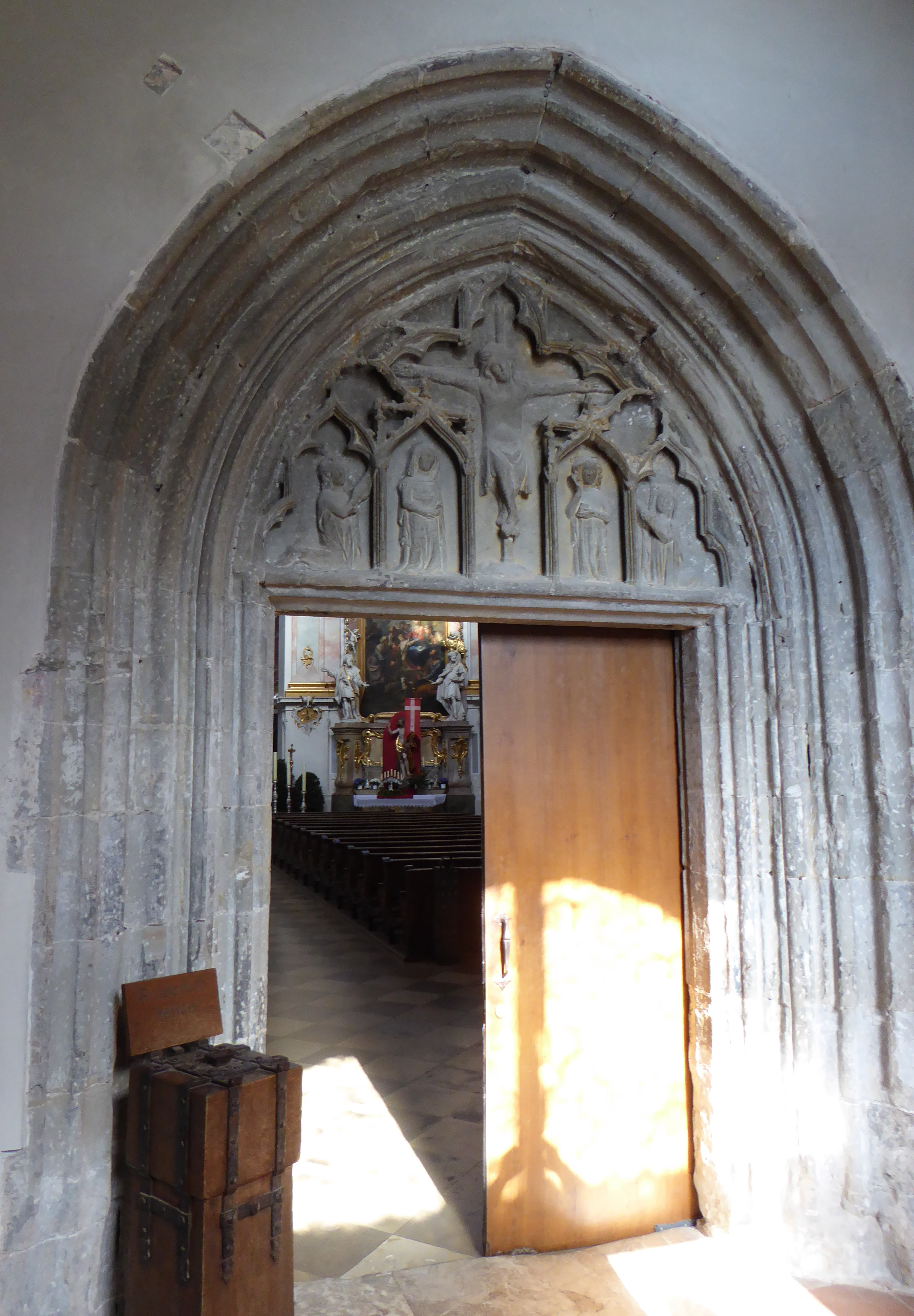 Portal of Ettal Abbey